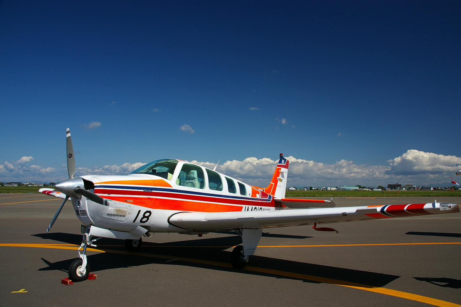 Beechcraft A36 Bonanza by Japan Civil Aviation College.